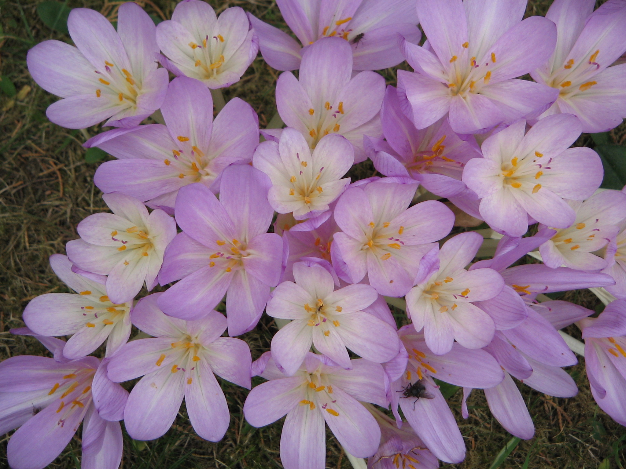 Colchicum byzantinum clump